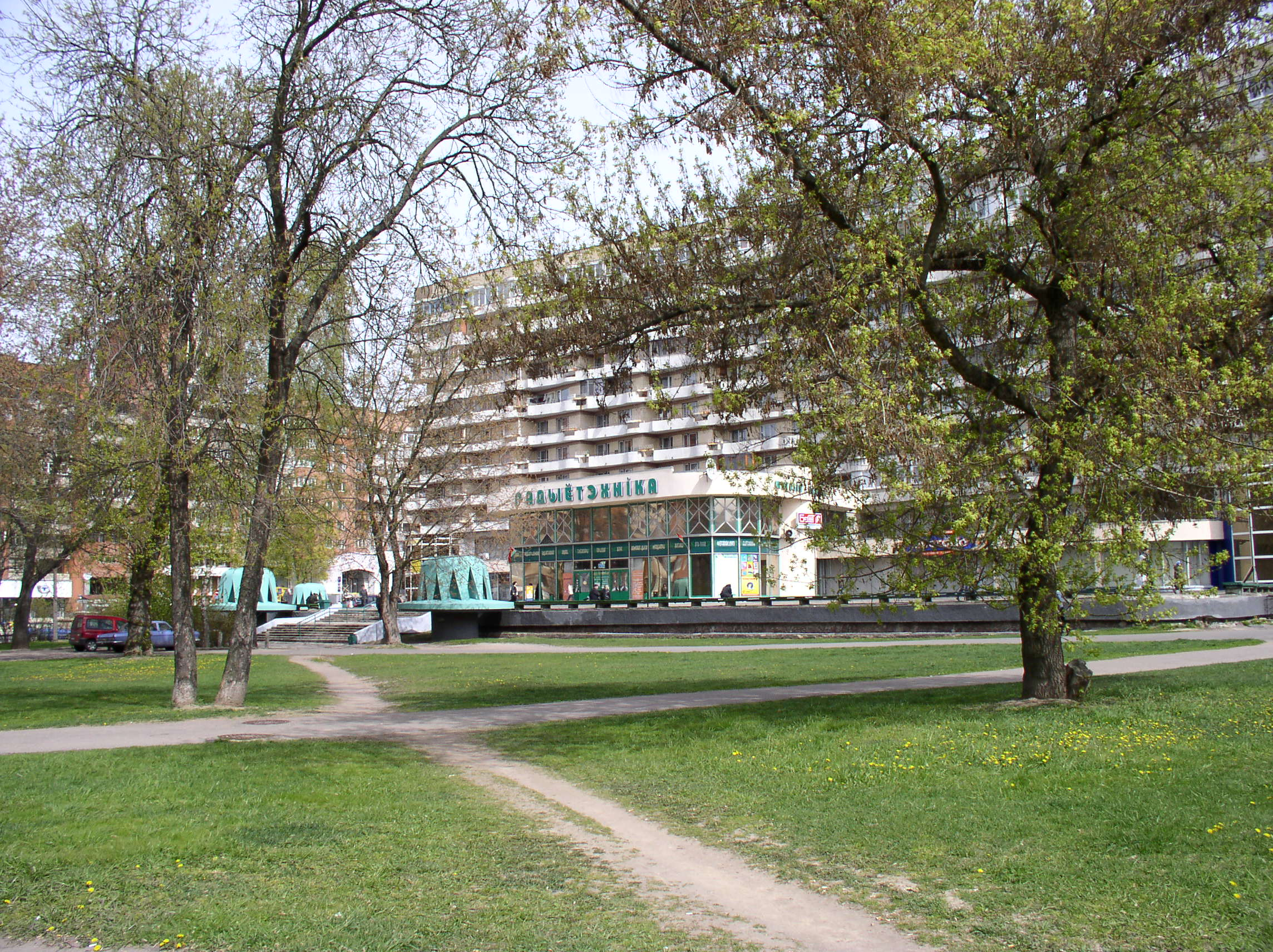 Calvary street, 4. Minsk, Belarus.